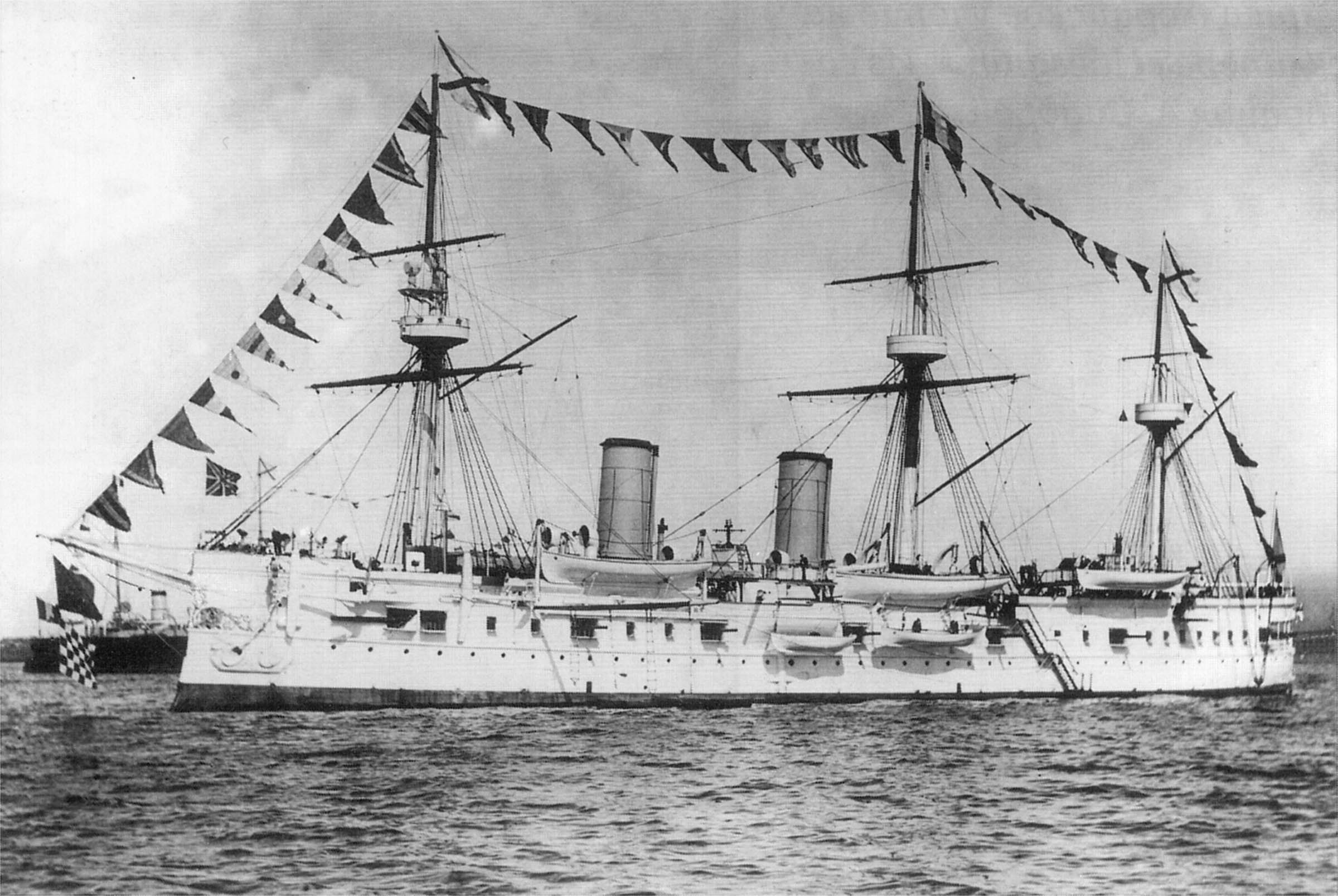 Imperial Russian Cruiser Dmitriy Donskoy.